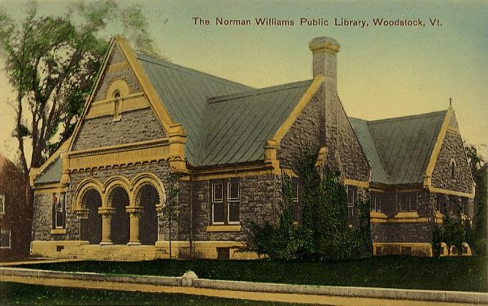 The Norman Williams Public Library, Woodstock, Vermont. Designed by Wilson Brothers & Company, architects and engineers of Philadelphia, it was built in 1883-1884.